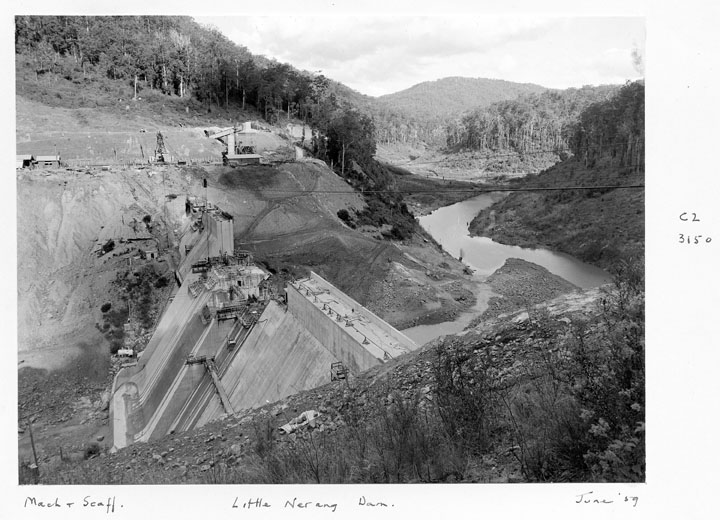 Little Nerang dam site. (Original photo caption makes reference to the Office of the Chief Inspector, Machinery, Scaffolding and Weights and Measures)